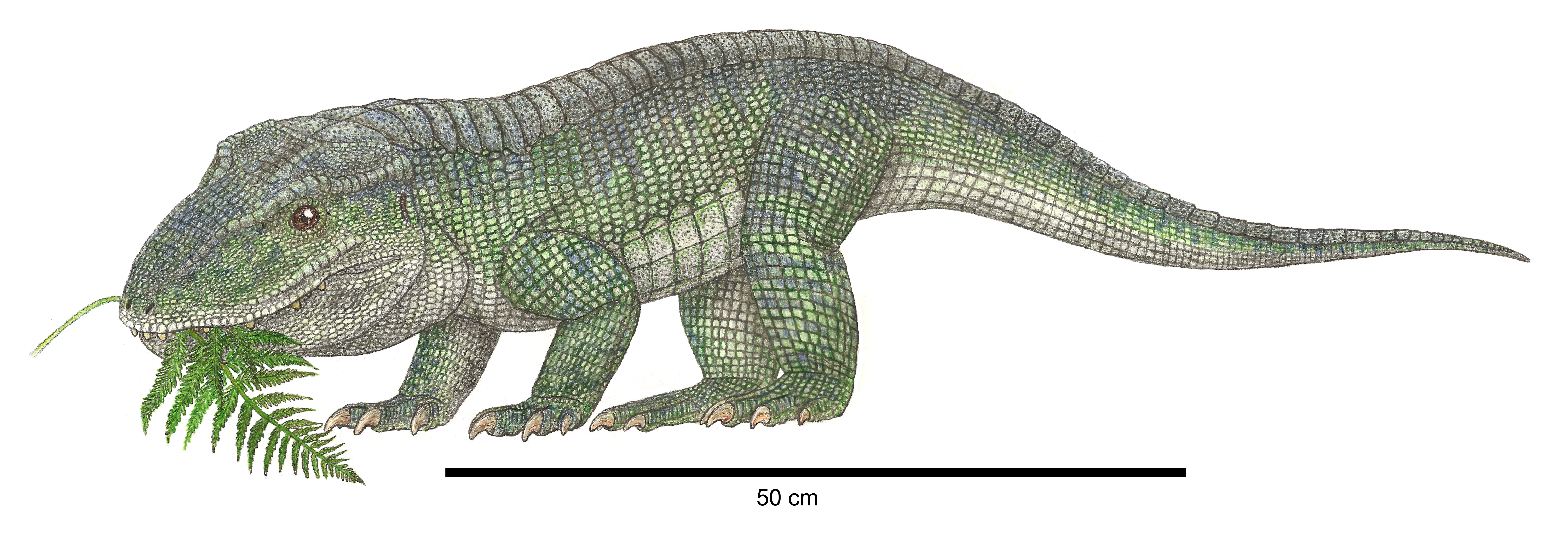 Restoration of Revueltosaurus from Petrified Forest National Park.